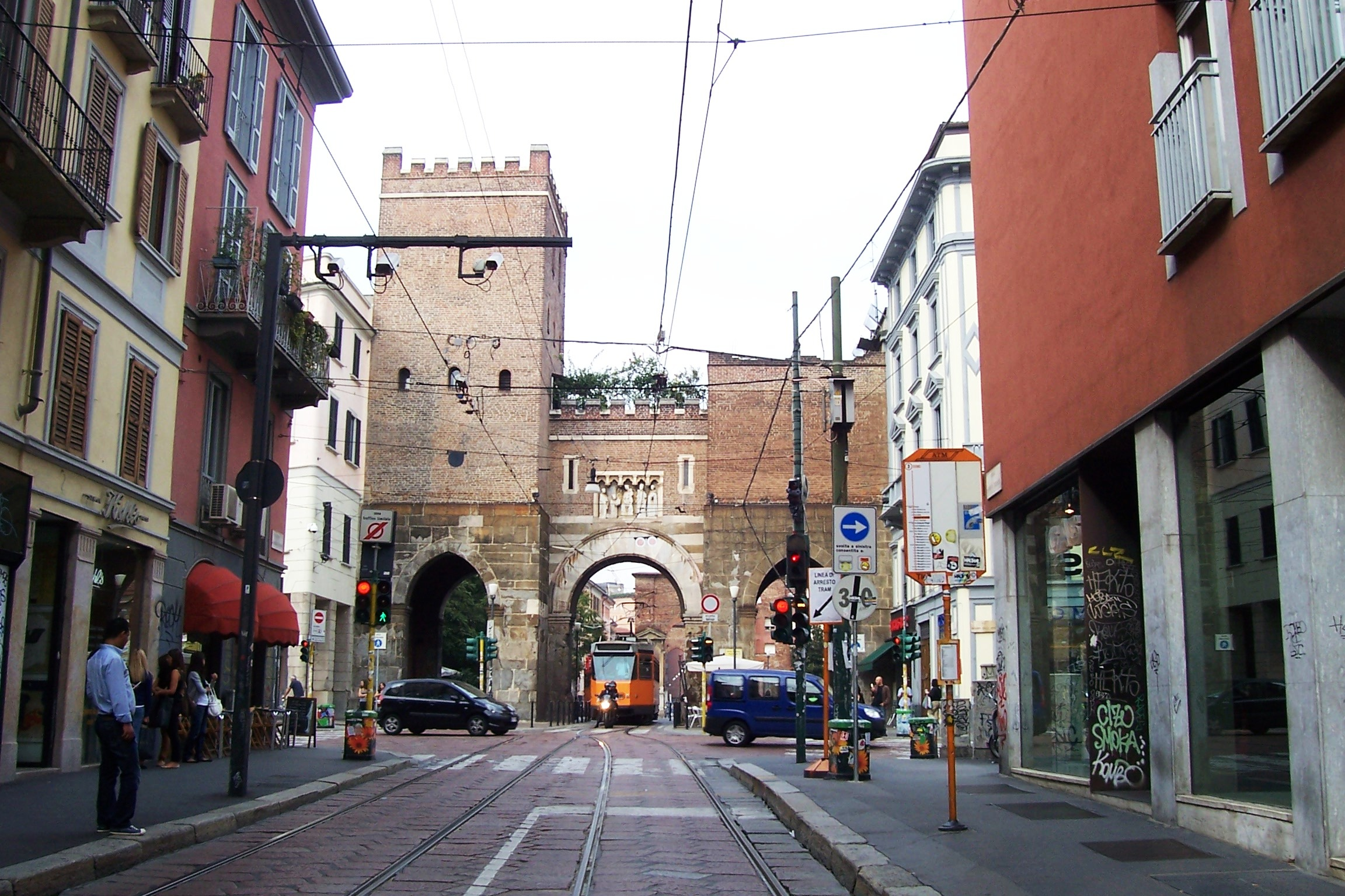 Porta Ticinese Gates, in medieval destroied Walls (external view)